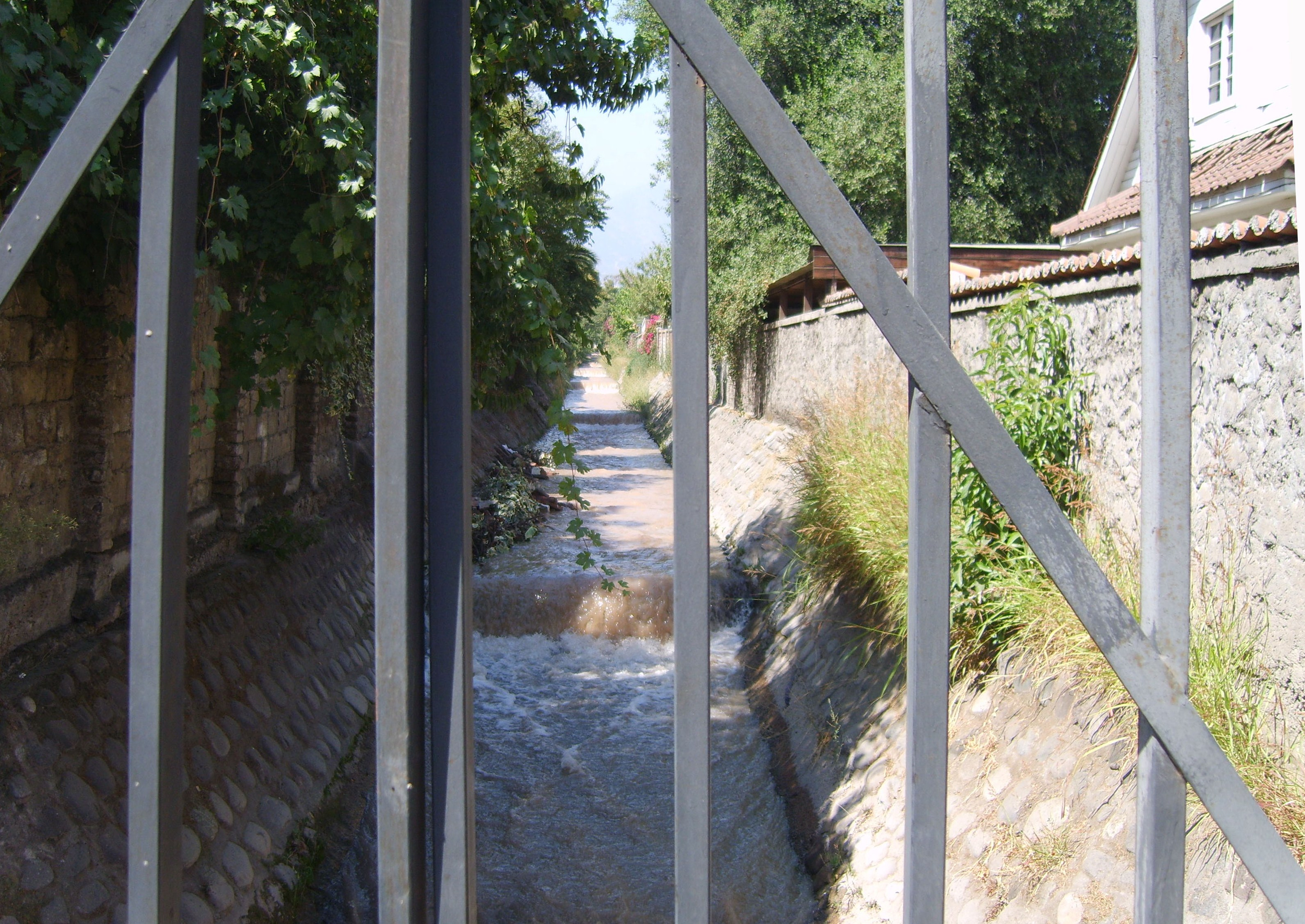 De Ramón lagoon, La Reina, Santiago de Chile